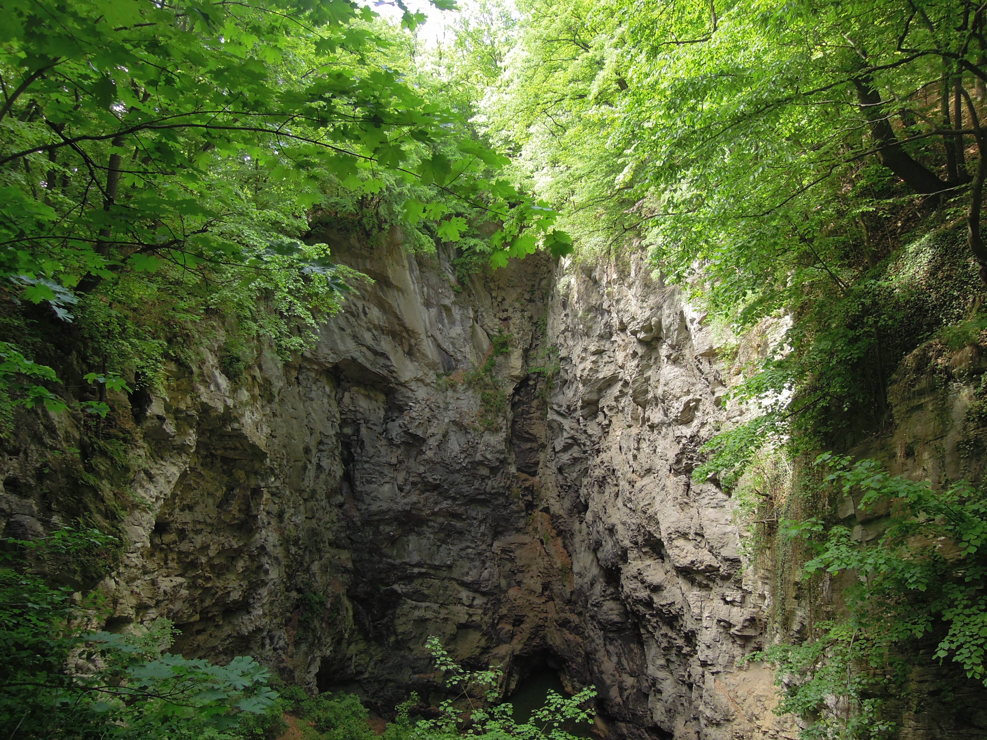 National nature reserve Hůrka u Hranic near Hranice, Přerov District, Oloumouc Region, Czech Republic